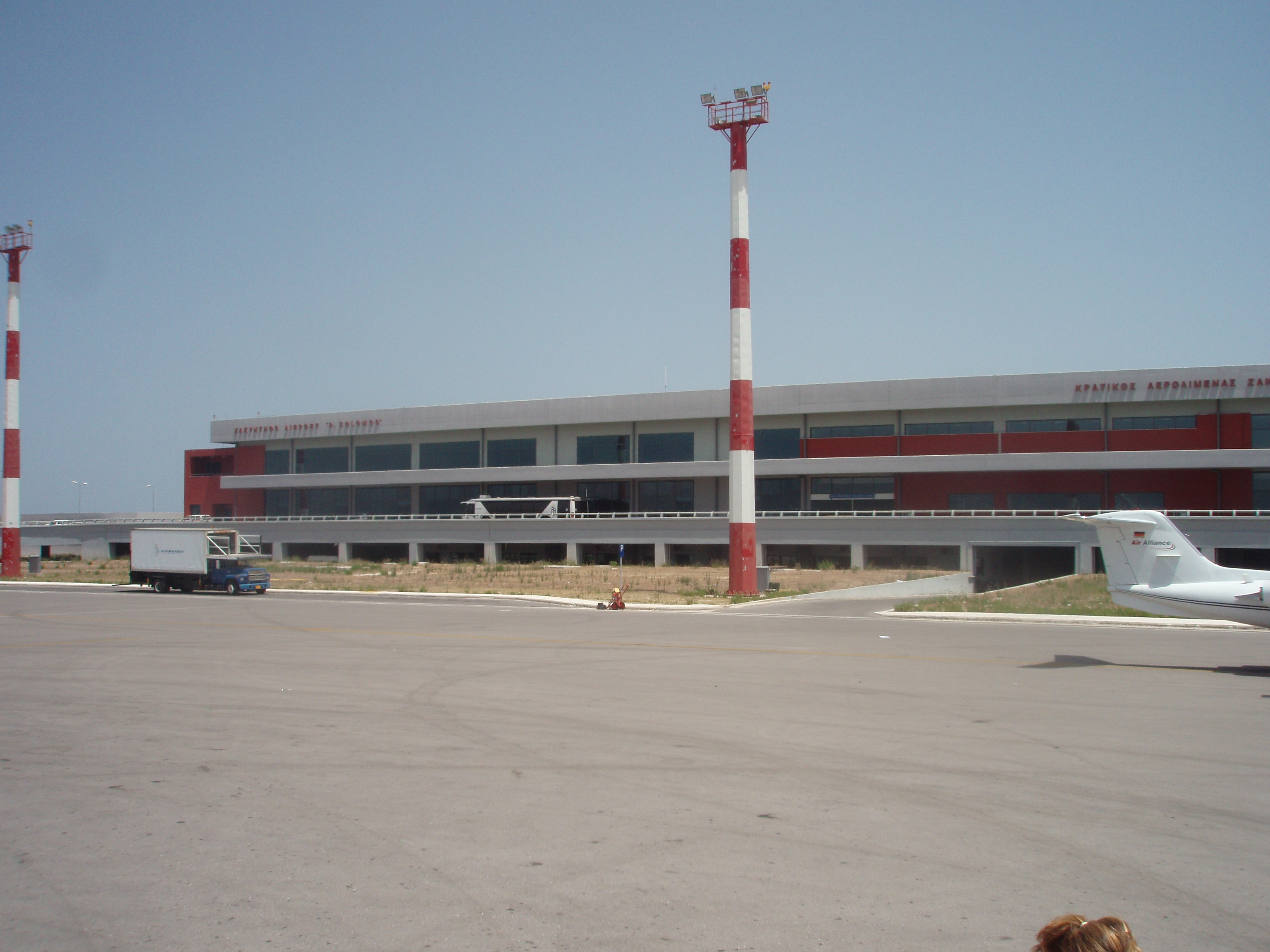 New terminal building at Zakynthos Airport, Zakynthos island, Greece. Photographed from airport's apron.